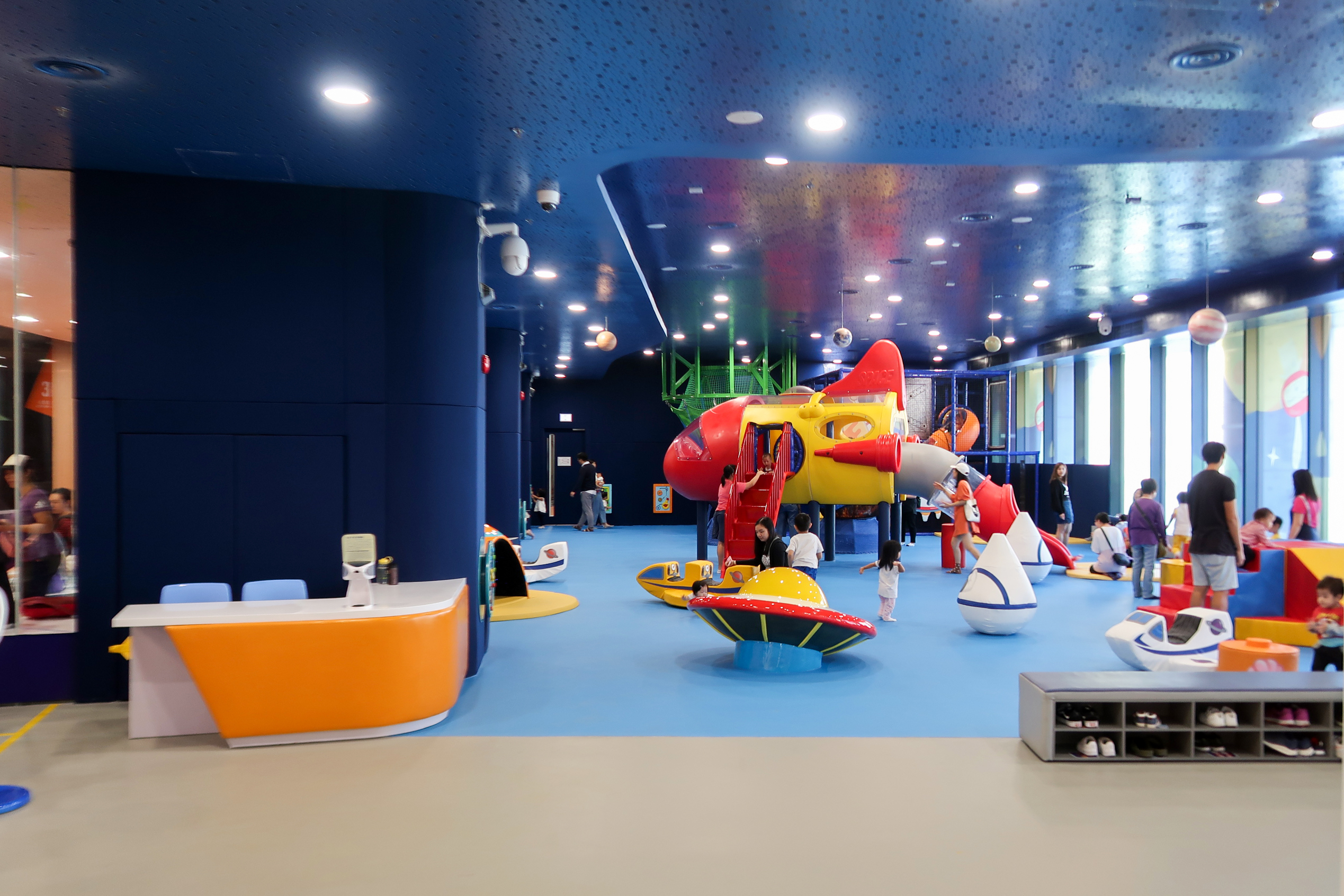 Siu Lun Sports Centre Level 4 Children Play Room